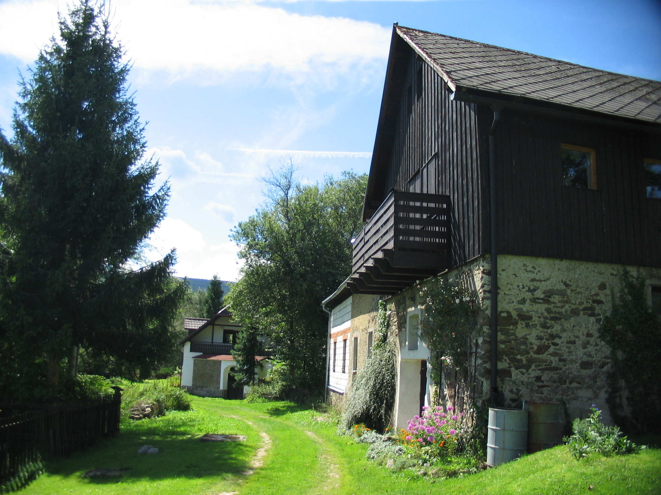 A part of Lídlovy Dvory near Kašperské Hory, Klatovy District, Czech Republic